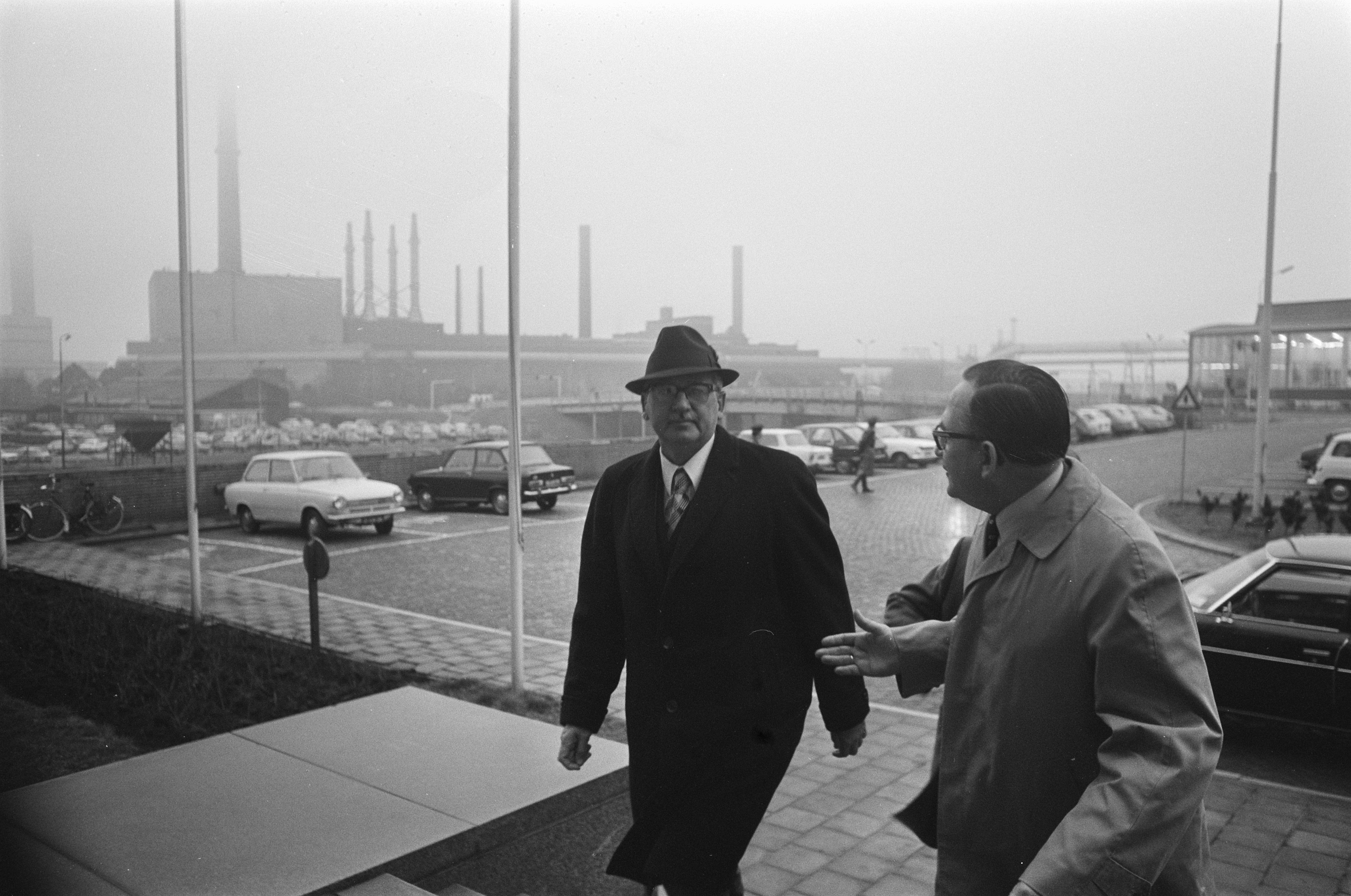 Marais Viljoen in Velsen (The Netherlands), 9 Jan. 1975